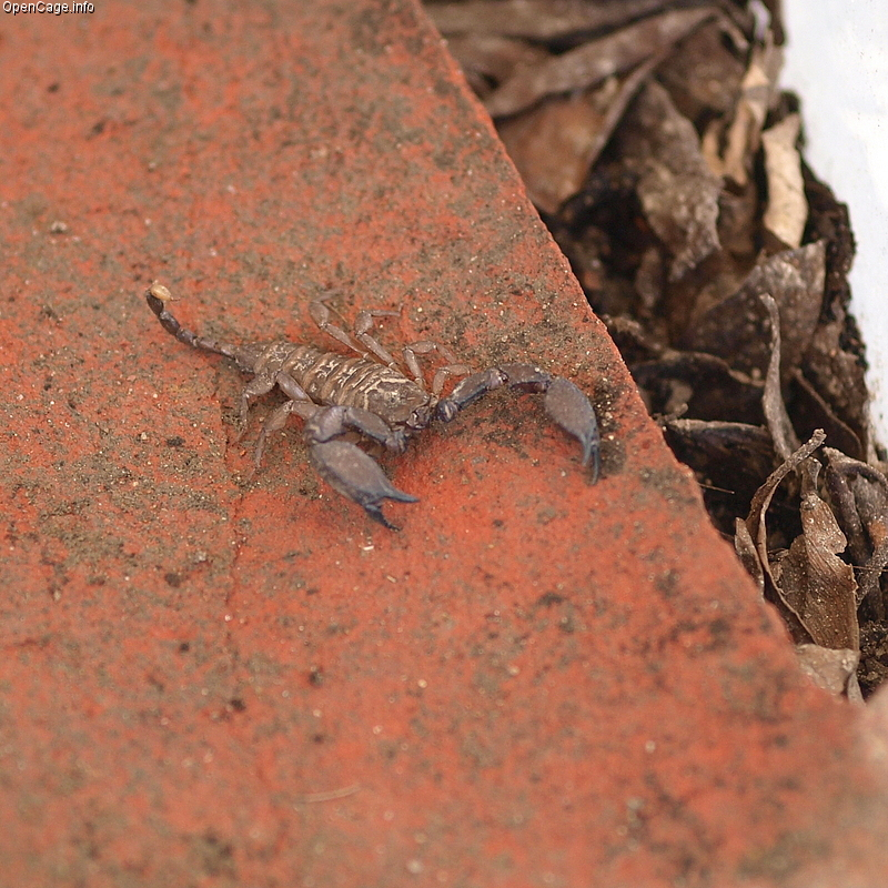 Liocheles australasiae